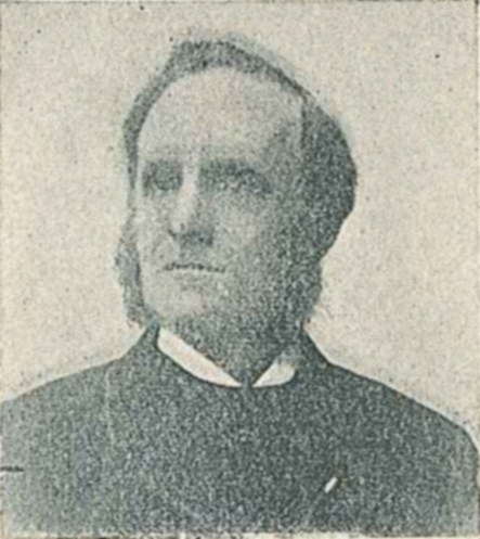 Swedish politician Carl Sandqvist. From page 6 of an album featuring portraits of all the members of the second chamber of the Swedish parliament (Sveriges riksdag) elected in 1897.